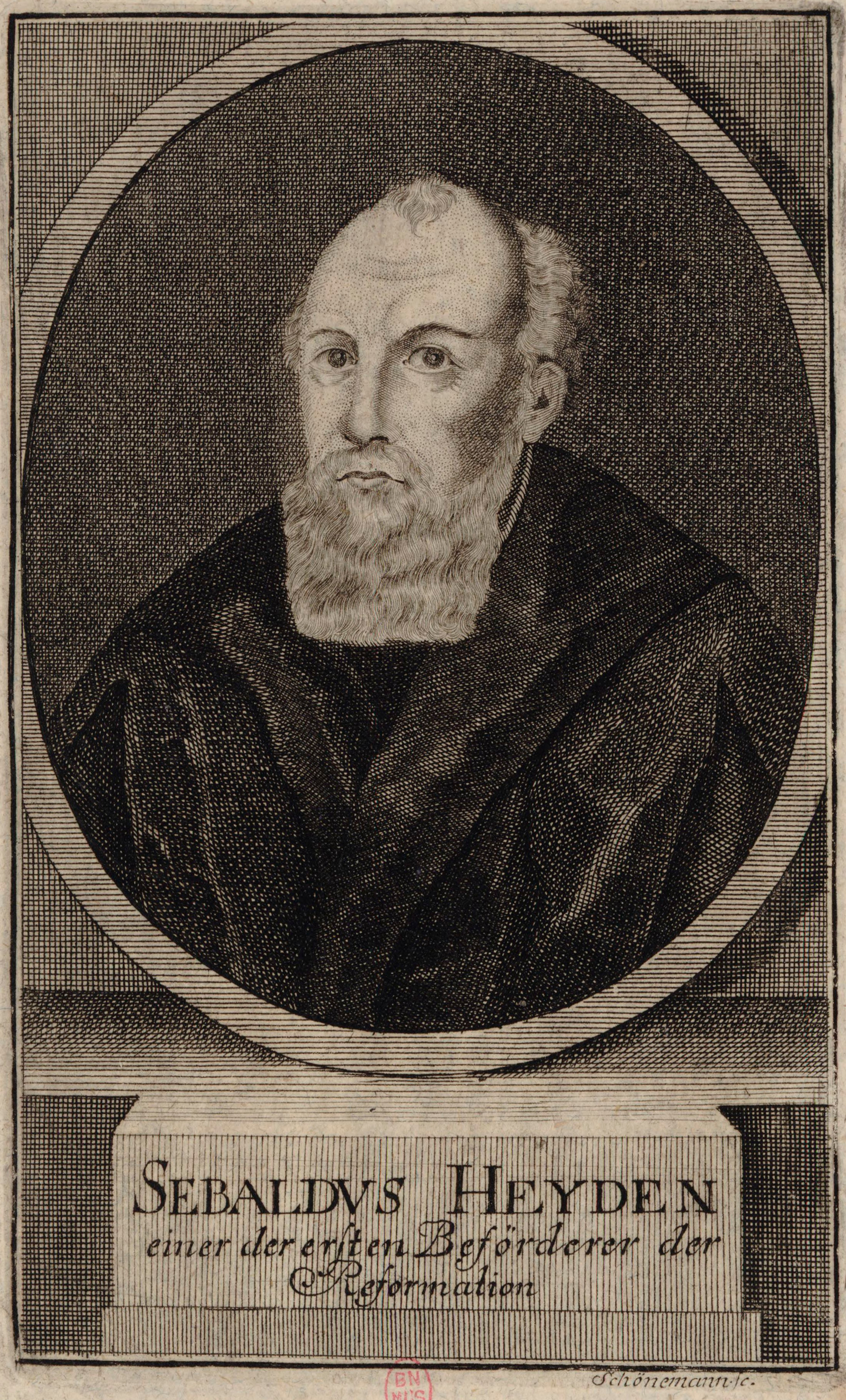 Depicted person: Sebald Heyden